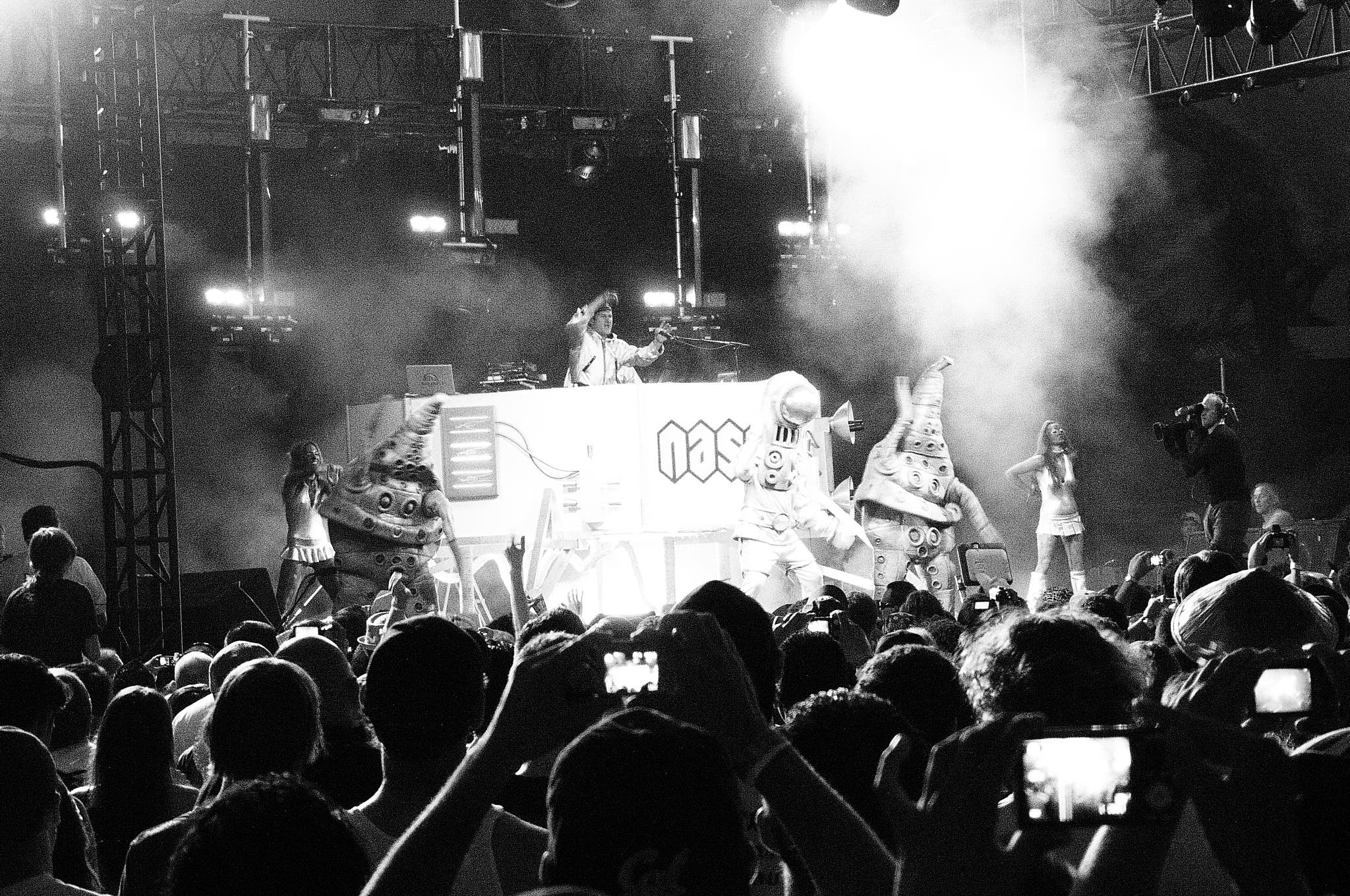 N.A.S.A. Perform at Coachella 2009